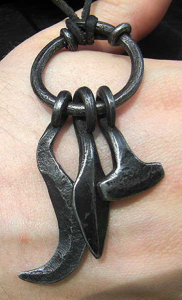 Amulet ring with Frey's sickle, Odin's spear, and Thor's hammer worn by a Swedish practioner of Forn Sed and member of Forn Sed Sweden. All made of iron. The style is typical of archaeological finds from Uppland and Södermanland, Sweden.